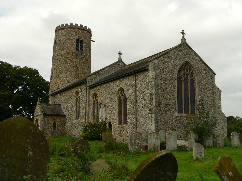 Morninghtorpe St John the Baptis